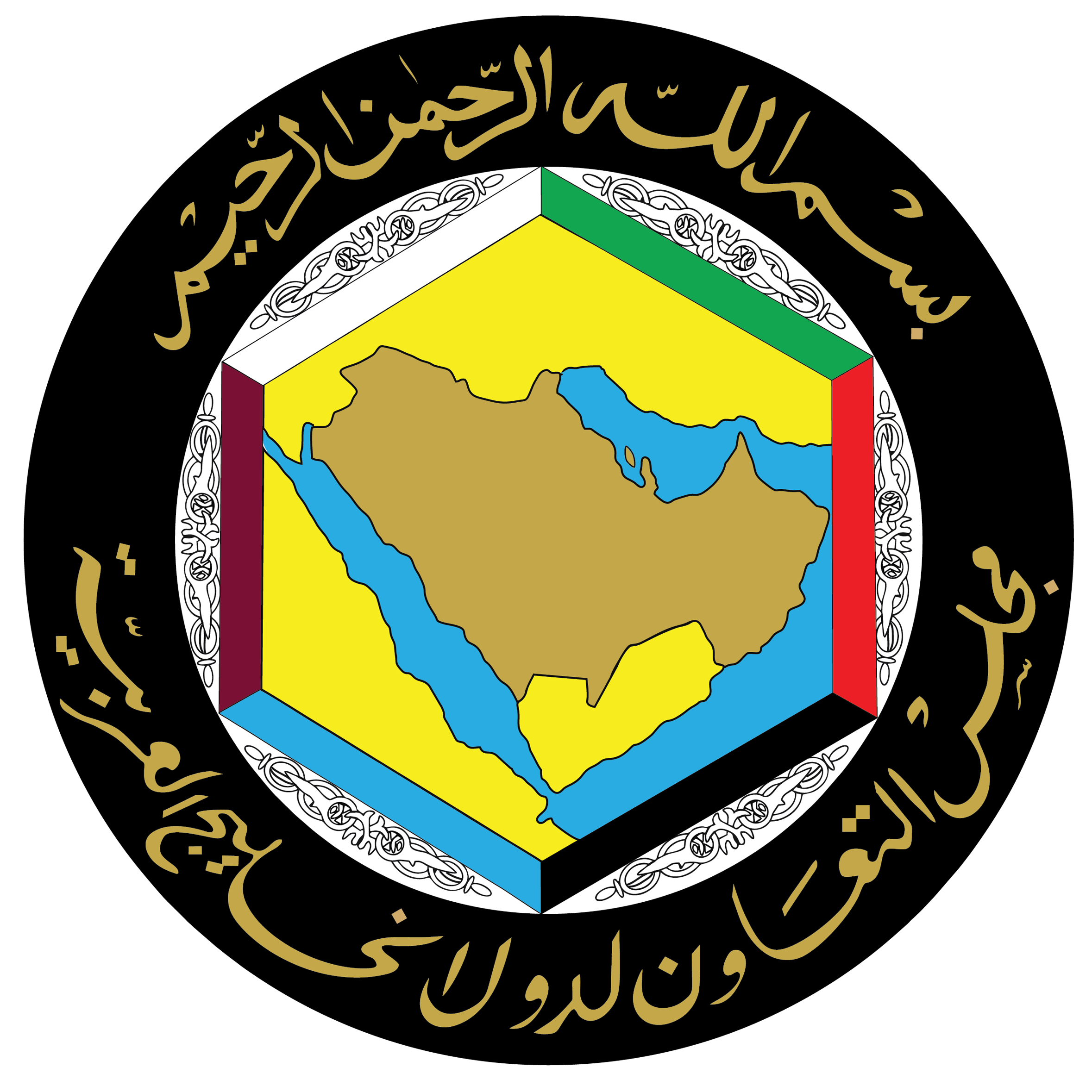 Flag of the Cooperation Council for the Arab States of the Gulf.